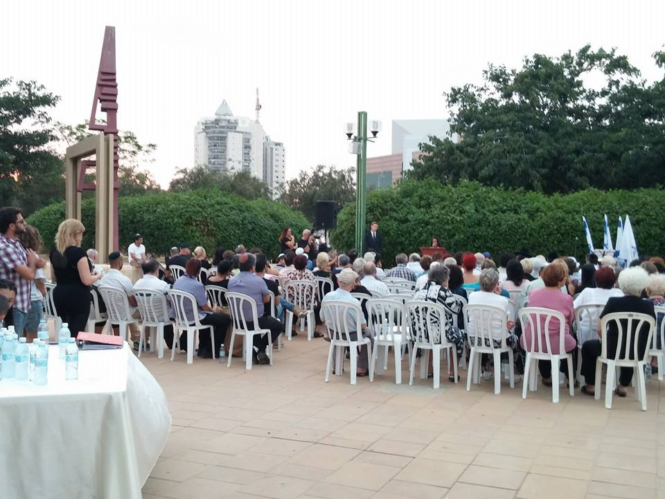 The memorial service on the tenth anniversary of the terrorist attack killing in Beersheba. In this attack 16 civilians were killed and over 100 were wounded. The ceremony was held near the monument erected in their memory.